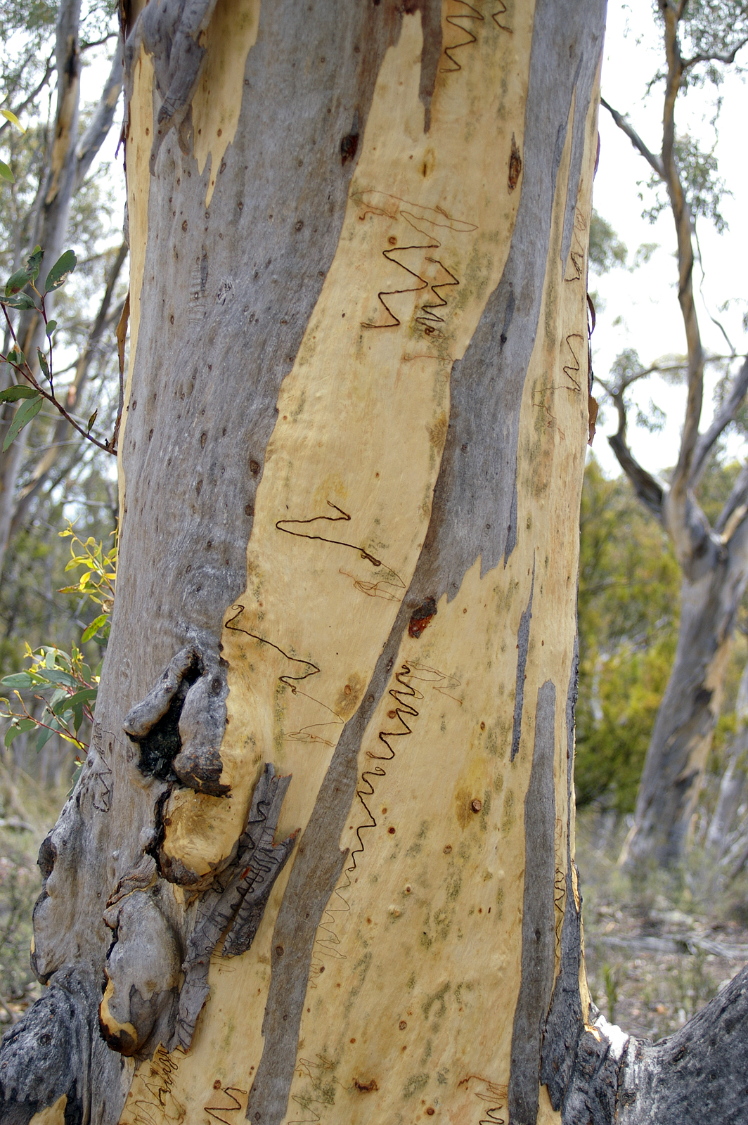 Scribbly Gum (Eucalyptus haemastoma) bark photographed on Black Mountain in the Australian Capital Territory.